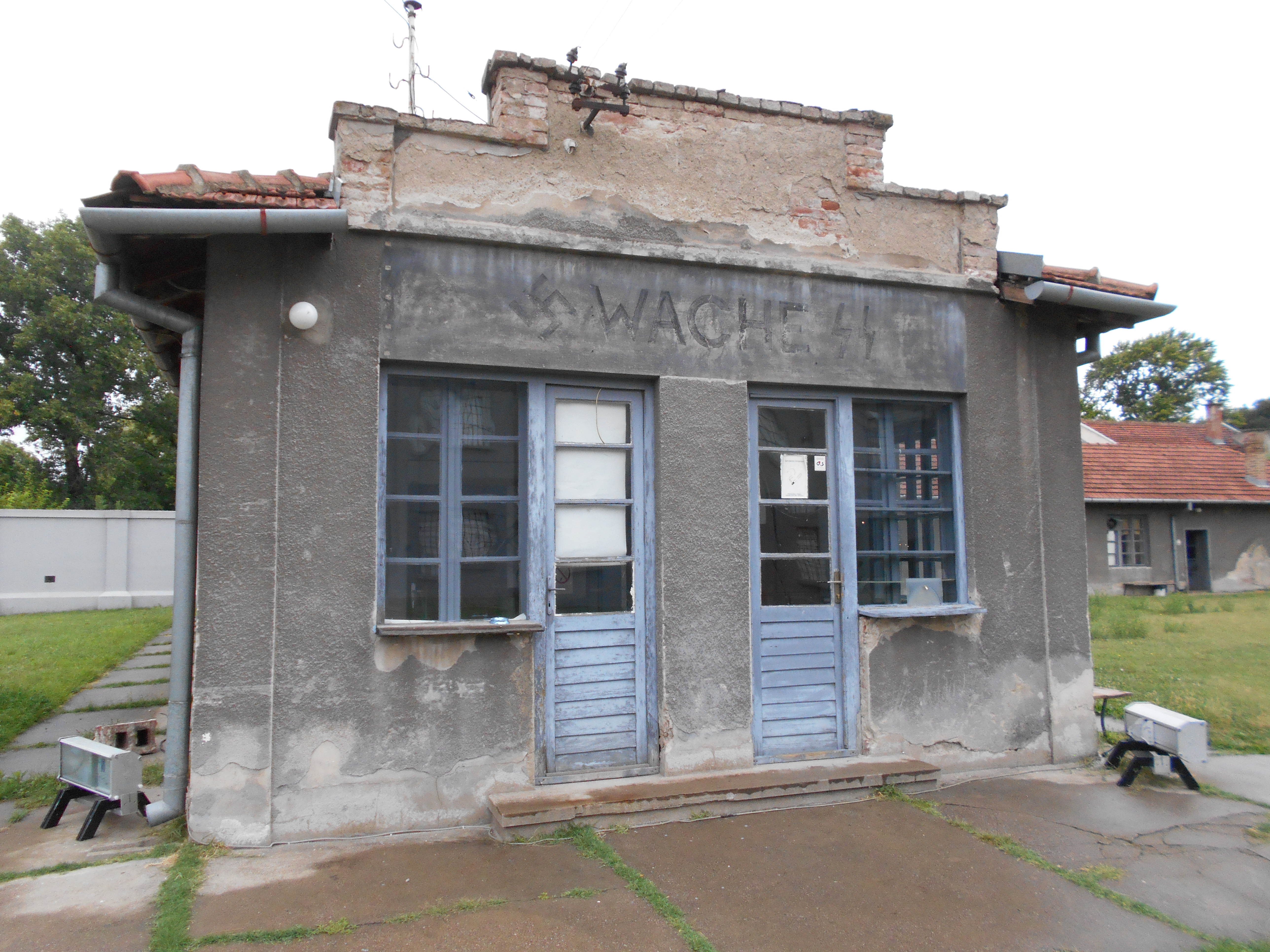 Crveni Krst concentration camp, Niš, Serbia